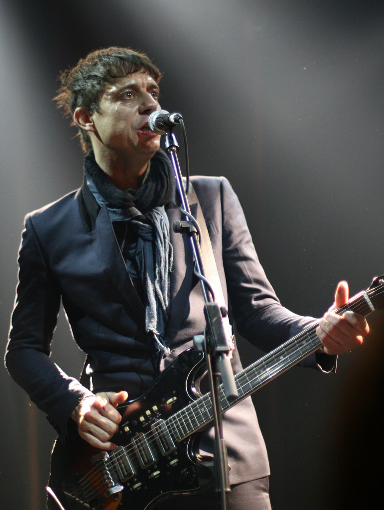 Jamie Hince from The Kills live in Barcelona in 2008